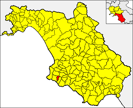 Locator map of the municipality of Serramezzana (red) within the Province of Salerno